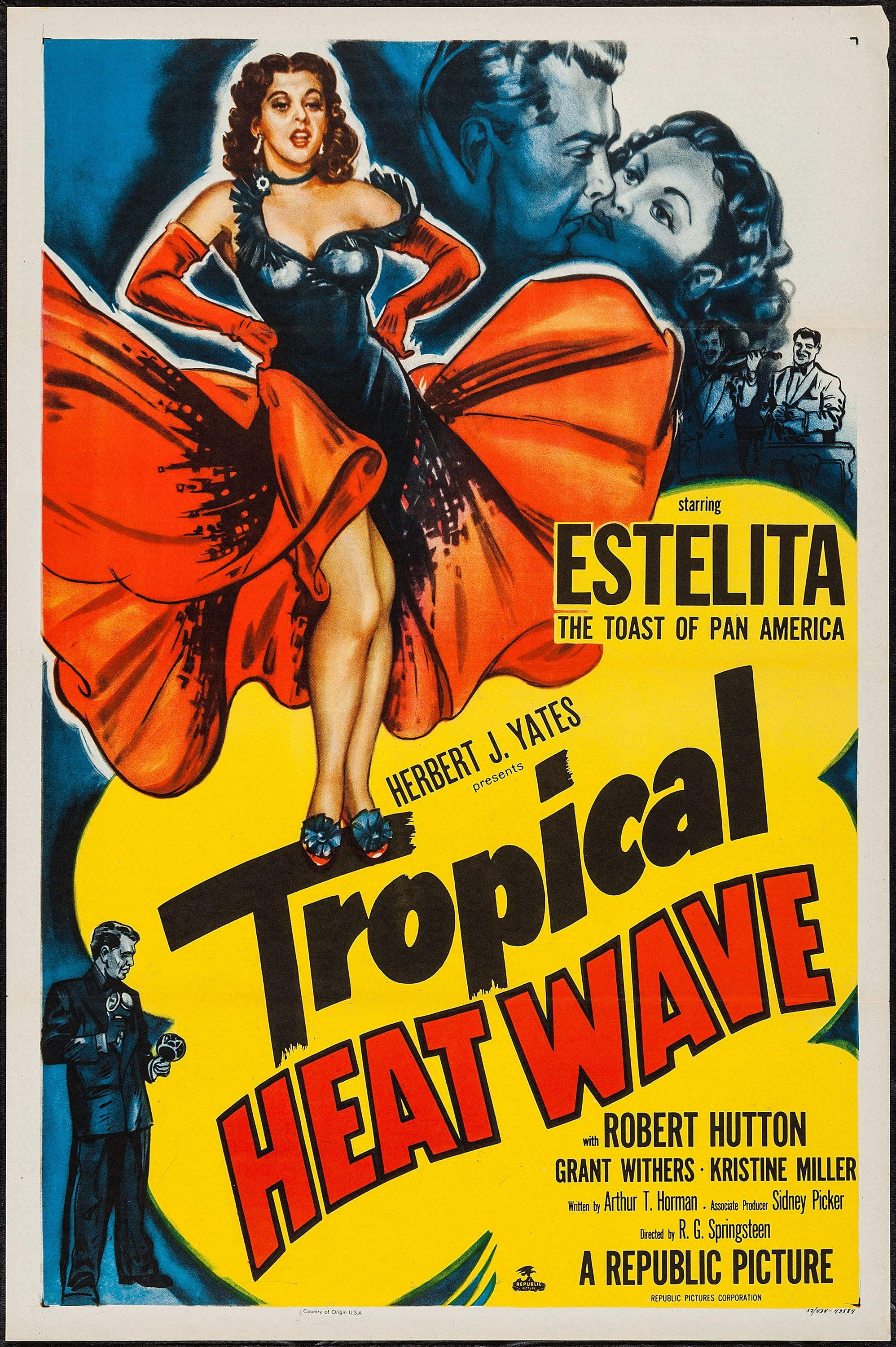 Poster for the 1952 film Tropical Heat Wave. The item has no copyright markings on it as can be seen in the links above. At bottom is Country of Origin USA and 52/434-43584.